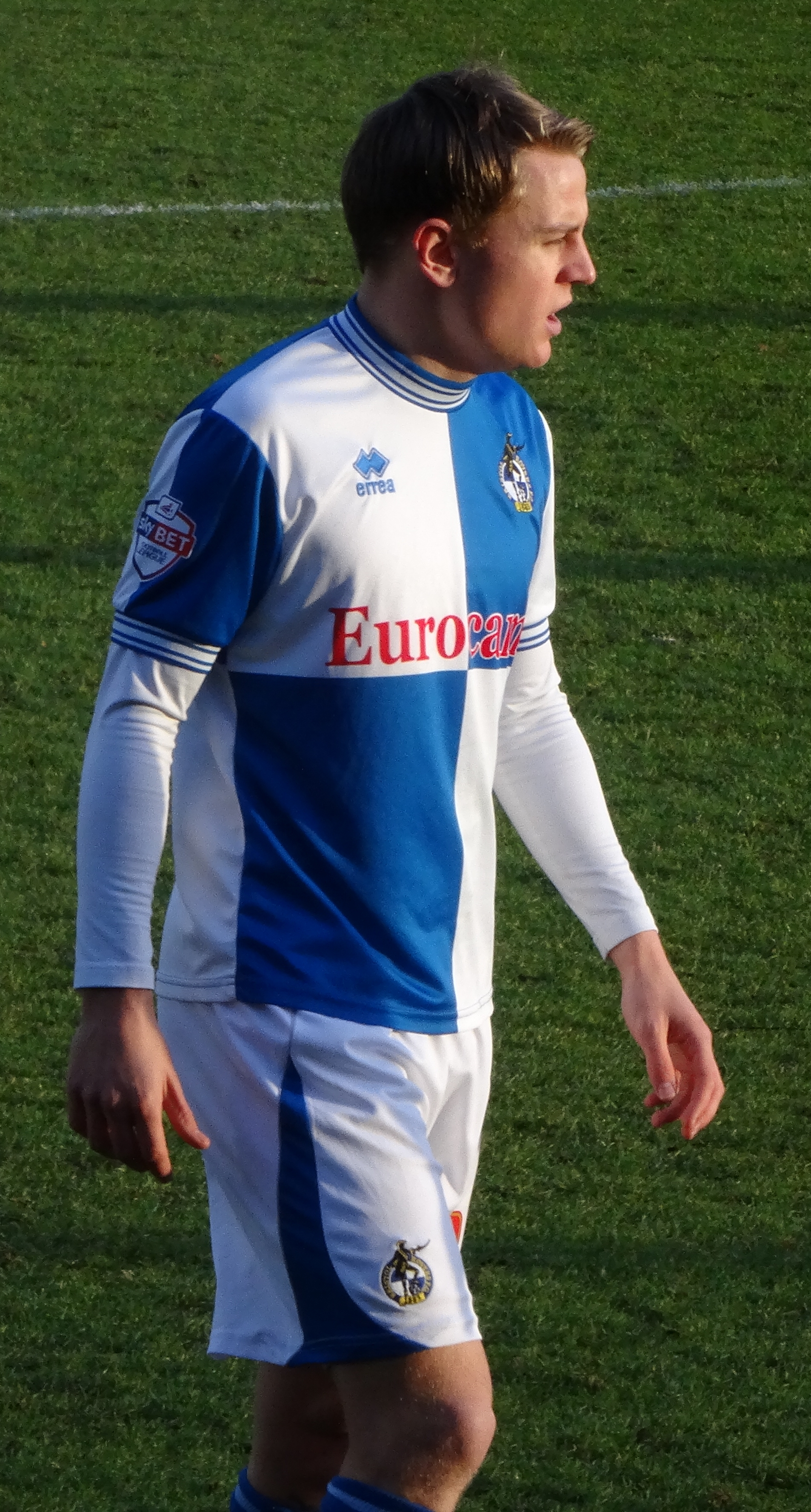 Eliot Richards playing for Bristol Rovers against York City at Bootham Crescent, York on 18 January 2014